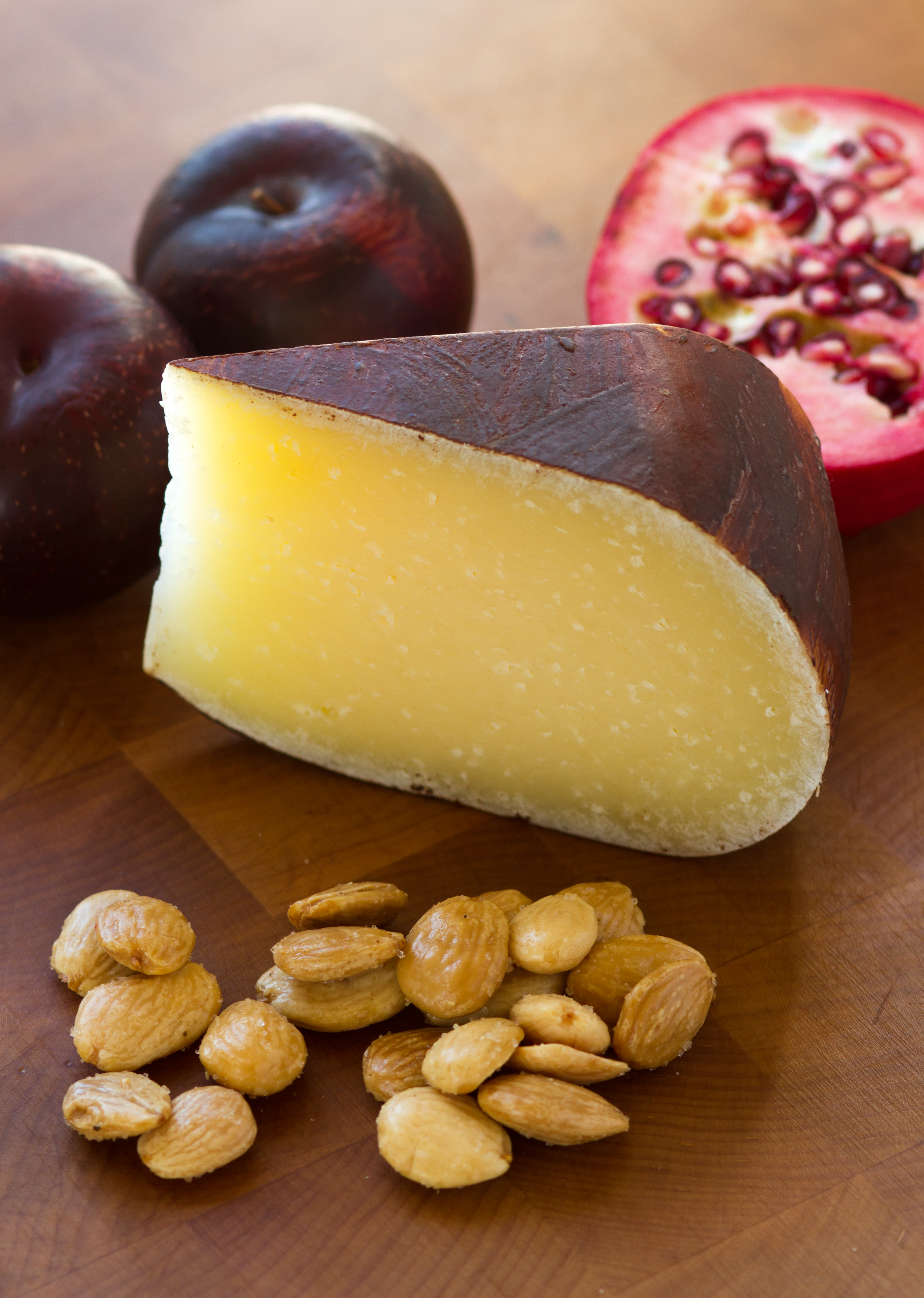 Monterey Jack (here: Dry Jack from Sonoma County, California) still life with plums, pomegranate and roasted Marcona almonds.